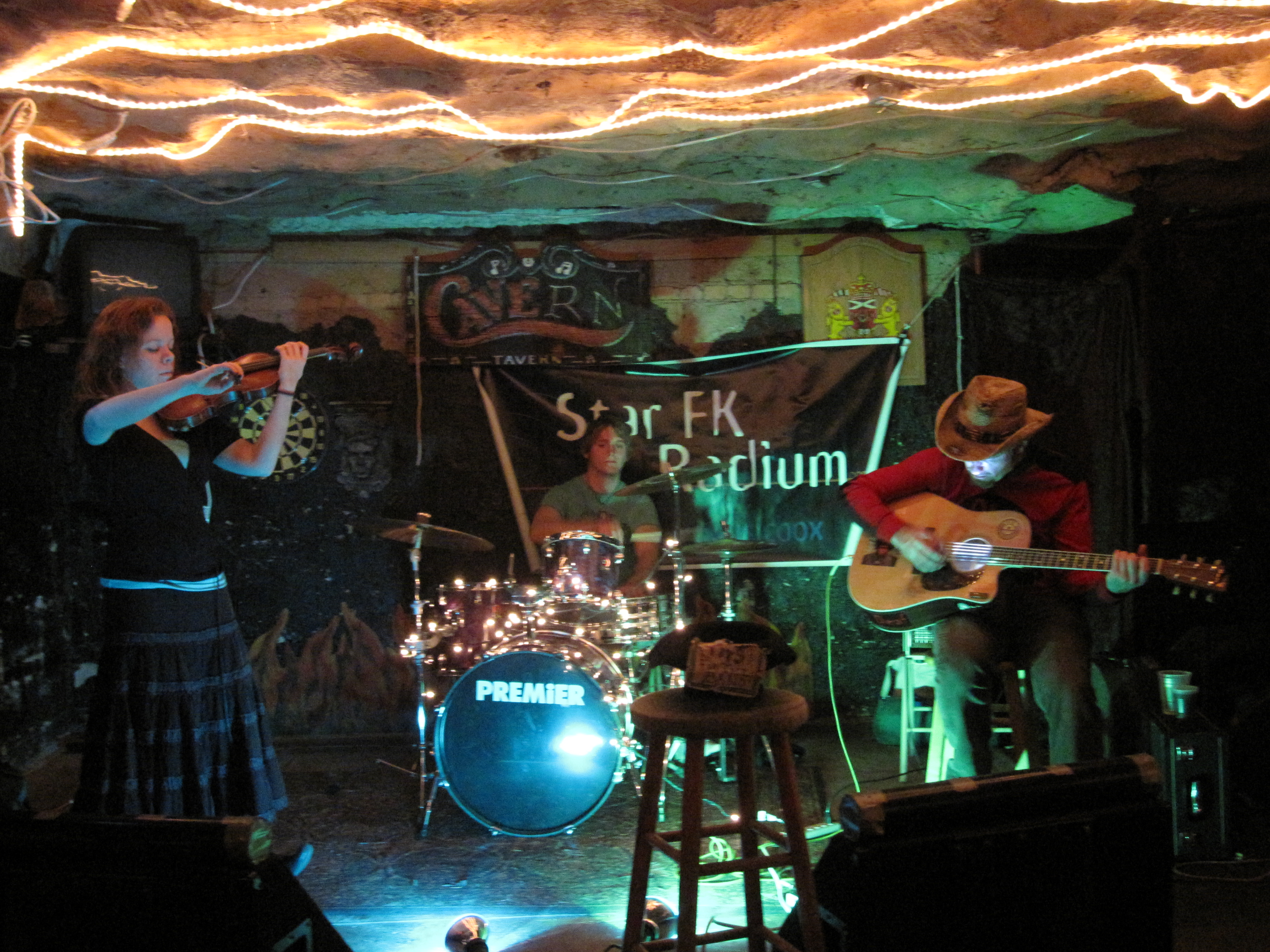 Star FK Radium at The Cave in Chapel Hill, NC Dec 12, 2009